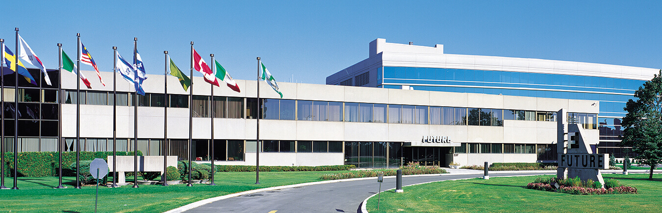 Future Electronics Headquarter in Montreal, Canada